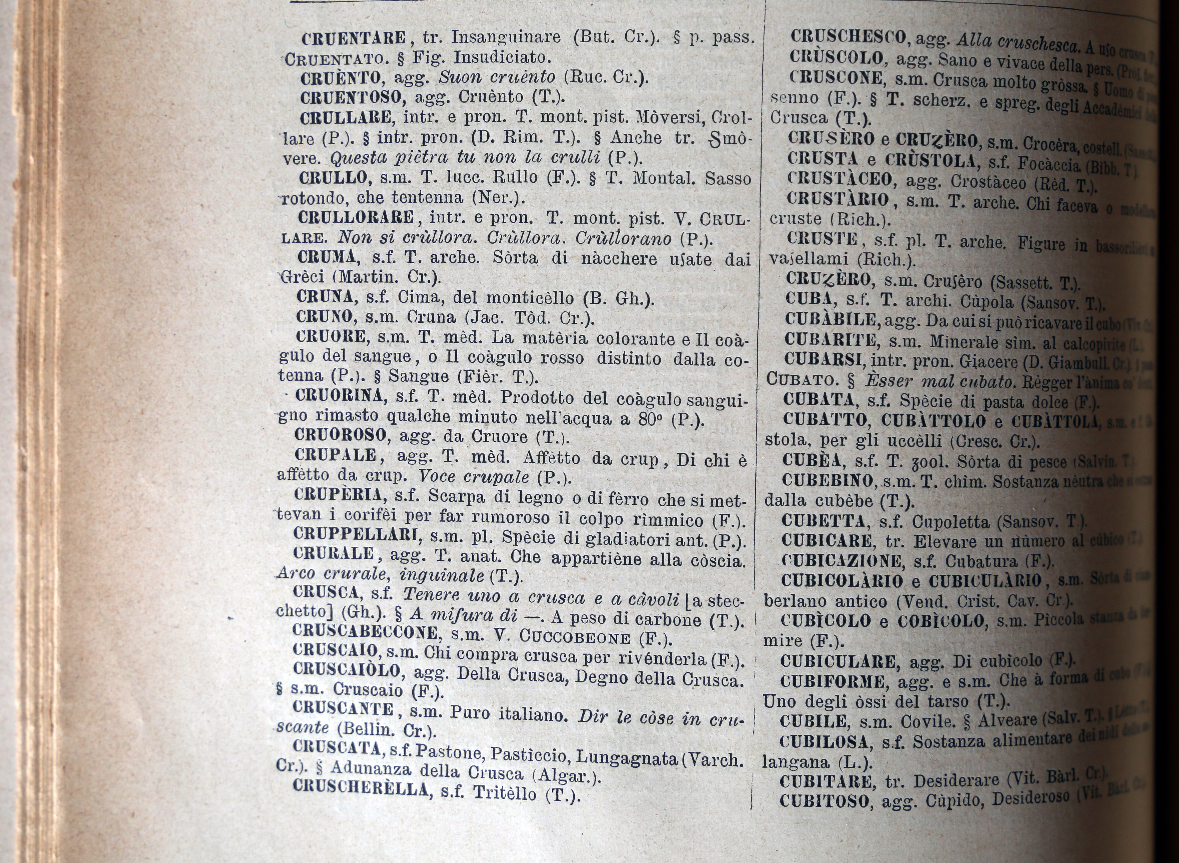 Accademia della Crusca Library